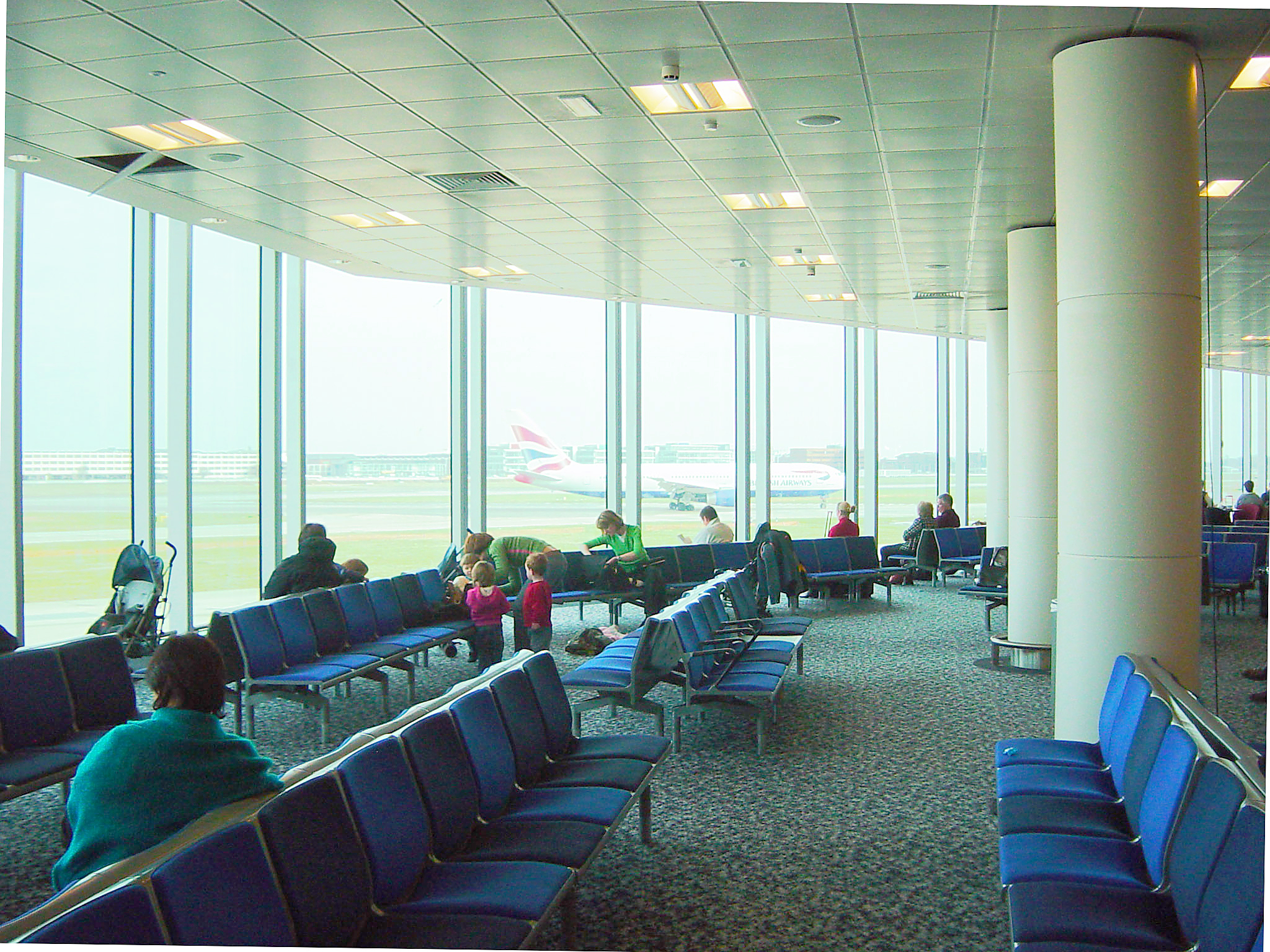 Photograph taken by me in March 2006 in the Heathrow Airport Terminal 1 Departure waiting area which has views looking over one of the runways.